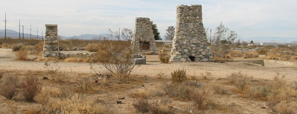 Photograph of the ruins at Llano Del Rio, California.